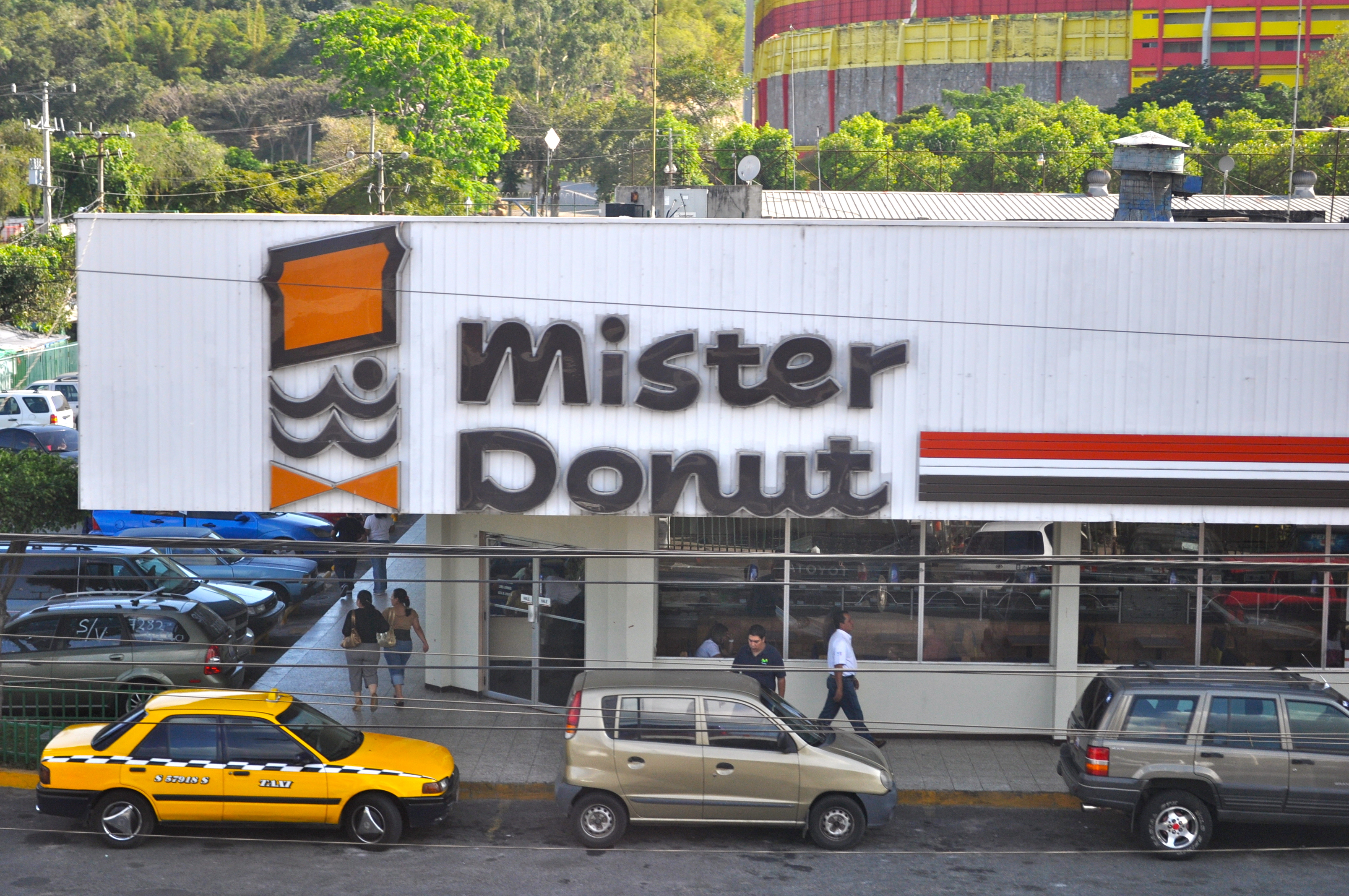 Large Mister Donut franchise in San Salvador